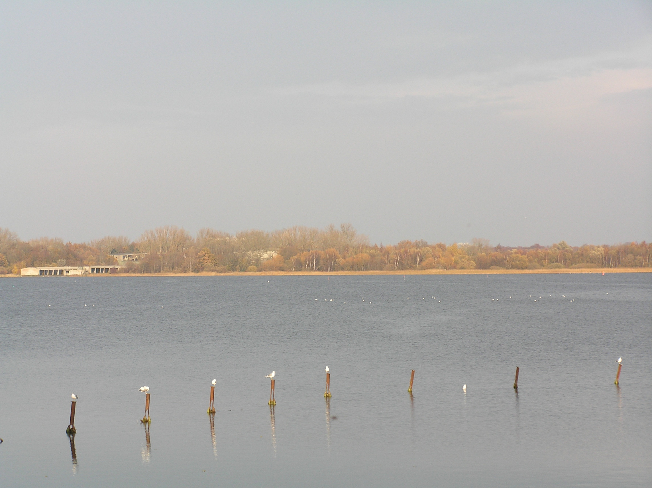 Hangars in Pütnitz as seen over the Ribnitzer See, Germany.